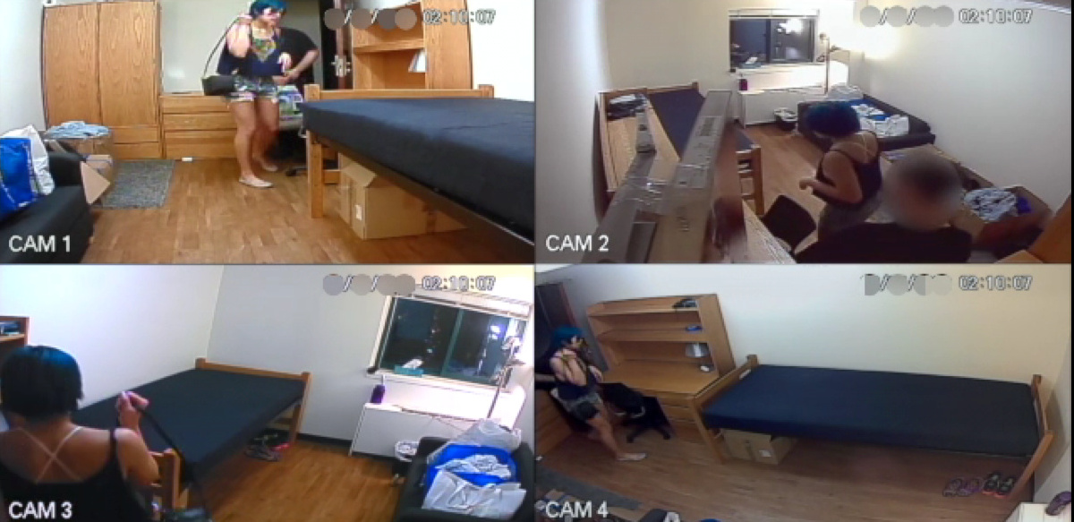 Screenshot from Ceci N'est Pas Un Viol (2015), a video by American performance artist Emma Sulkowicz. The release pertains only to this screenshot, not to the video as a whole or to any other part of it.